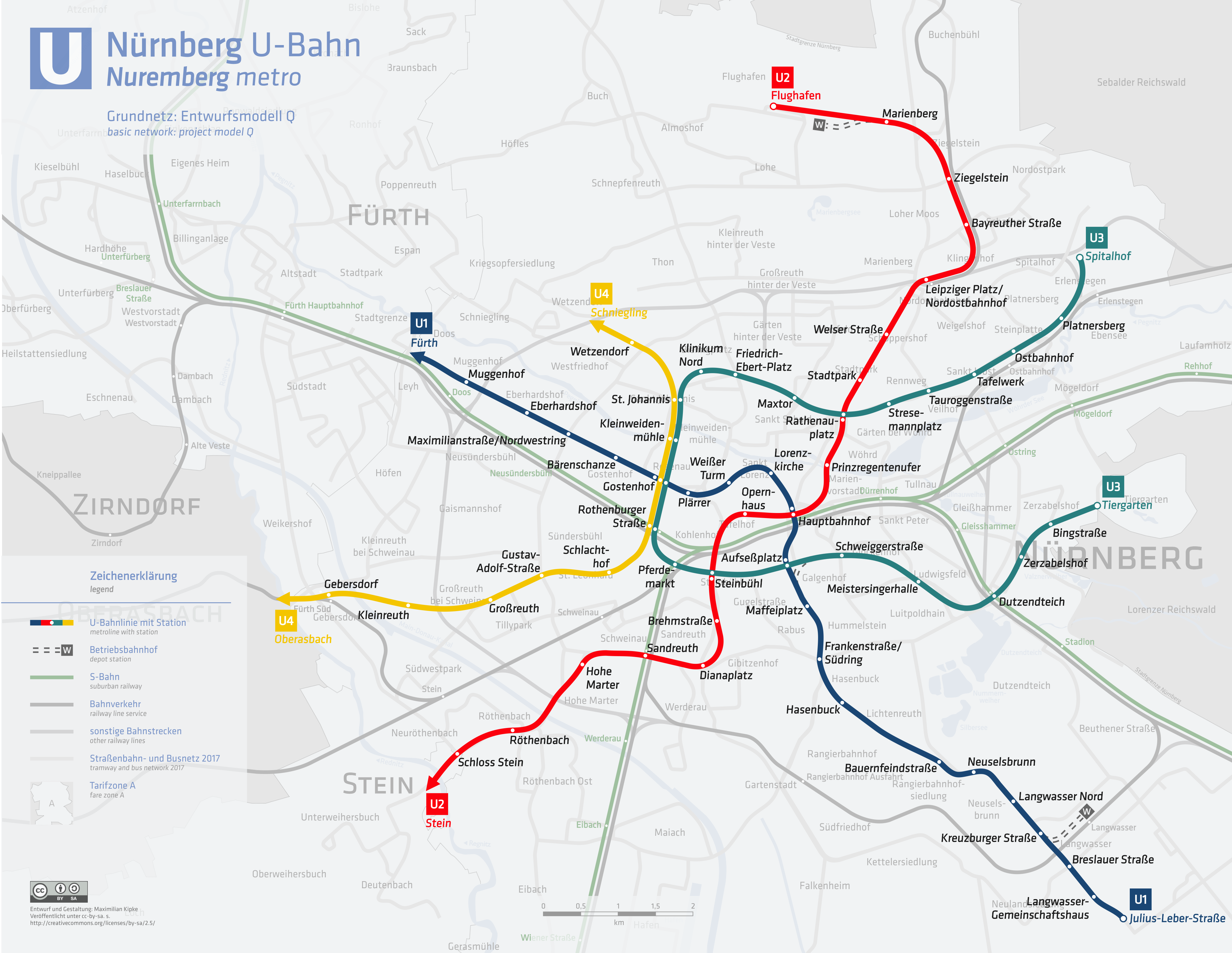 basic network: project model Q of nuremberg metro